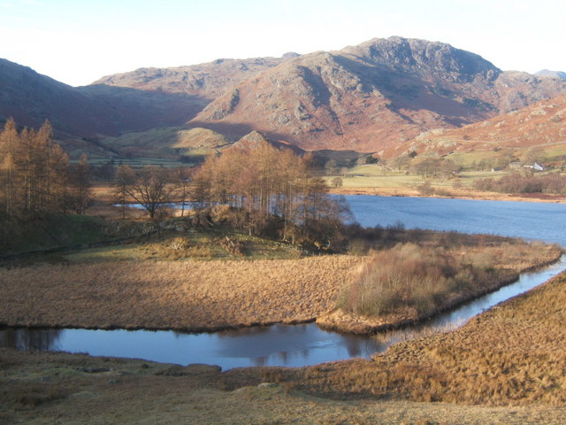 Looking across Little Langdale Tarn with Blake Rigg in the background